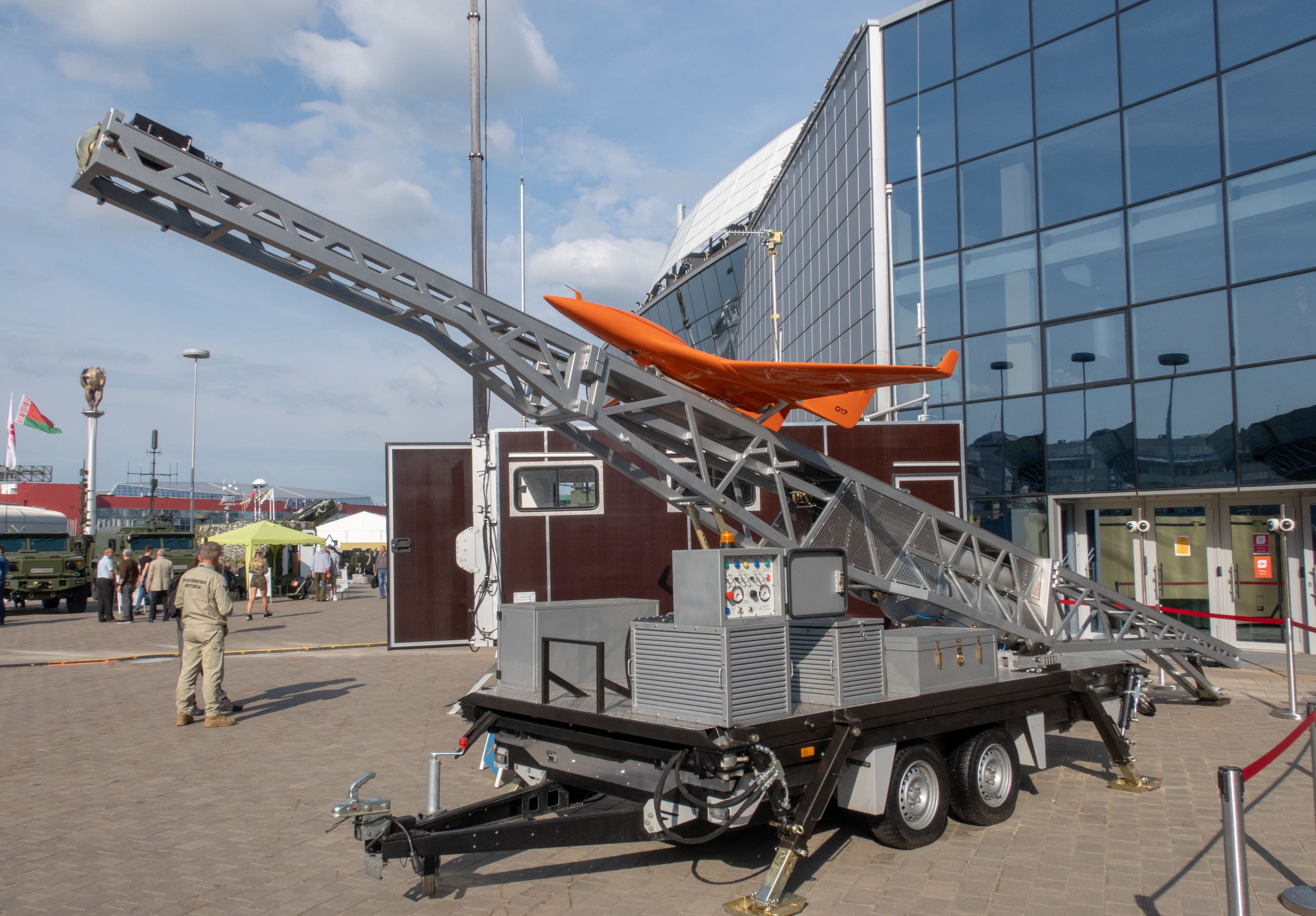 Berkut-BM UAV by UAVHELI (KB Unmanned Helicopters / Indela) at Milex-2019 arms and military machinery exposition (Minsk, Belarus)